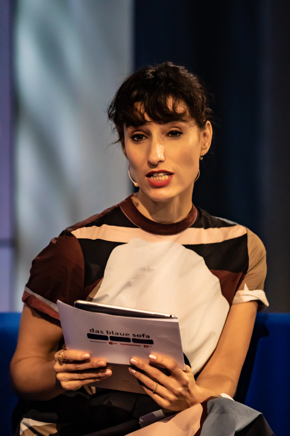 Journalist and TV presenter Vivian Perkovic at the Frankfurt Book Fair 2019